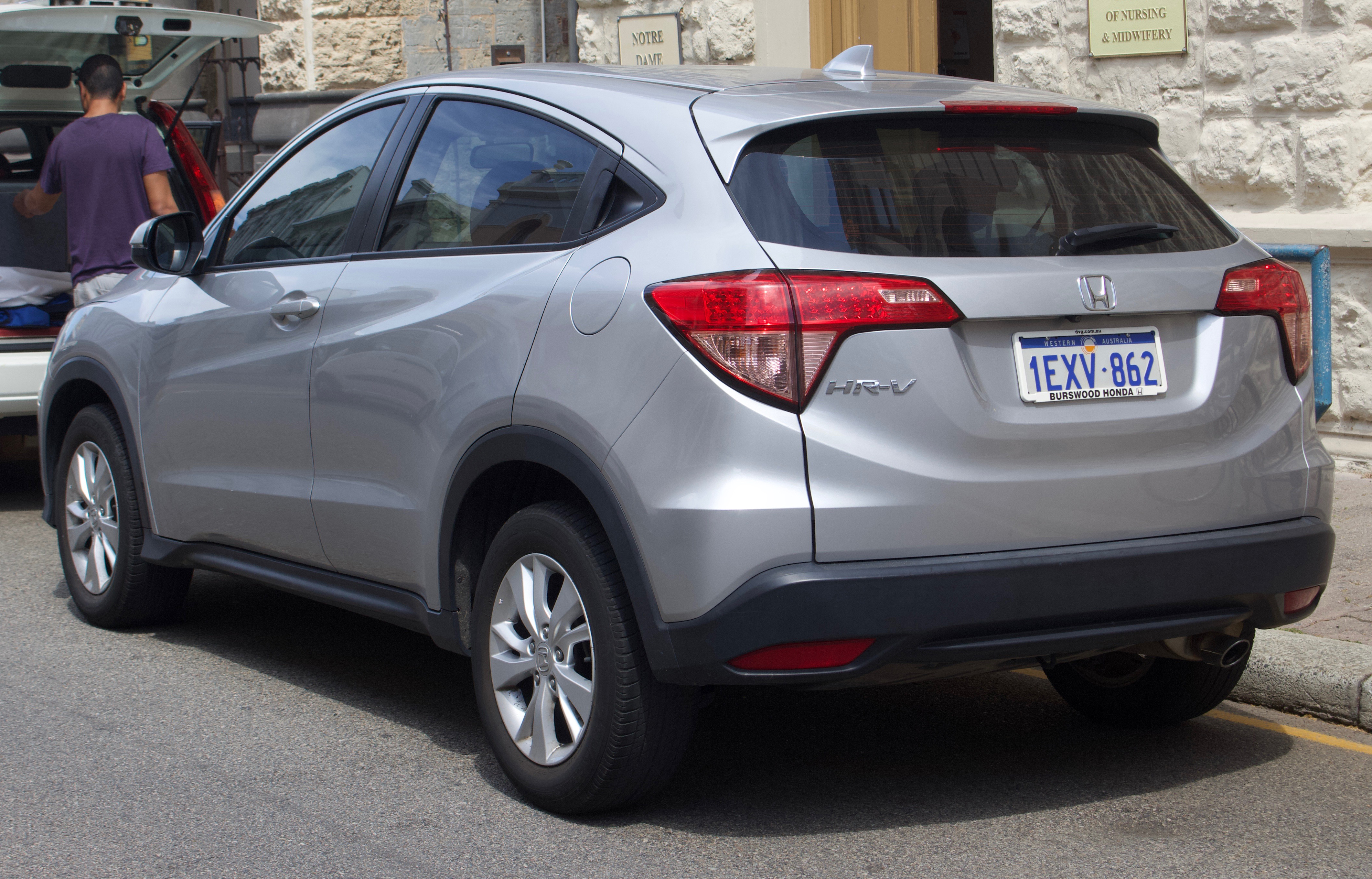 2015 Honda HR-V VTi wagon. Photographed in Fremantle, Western Australia, Australia.